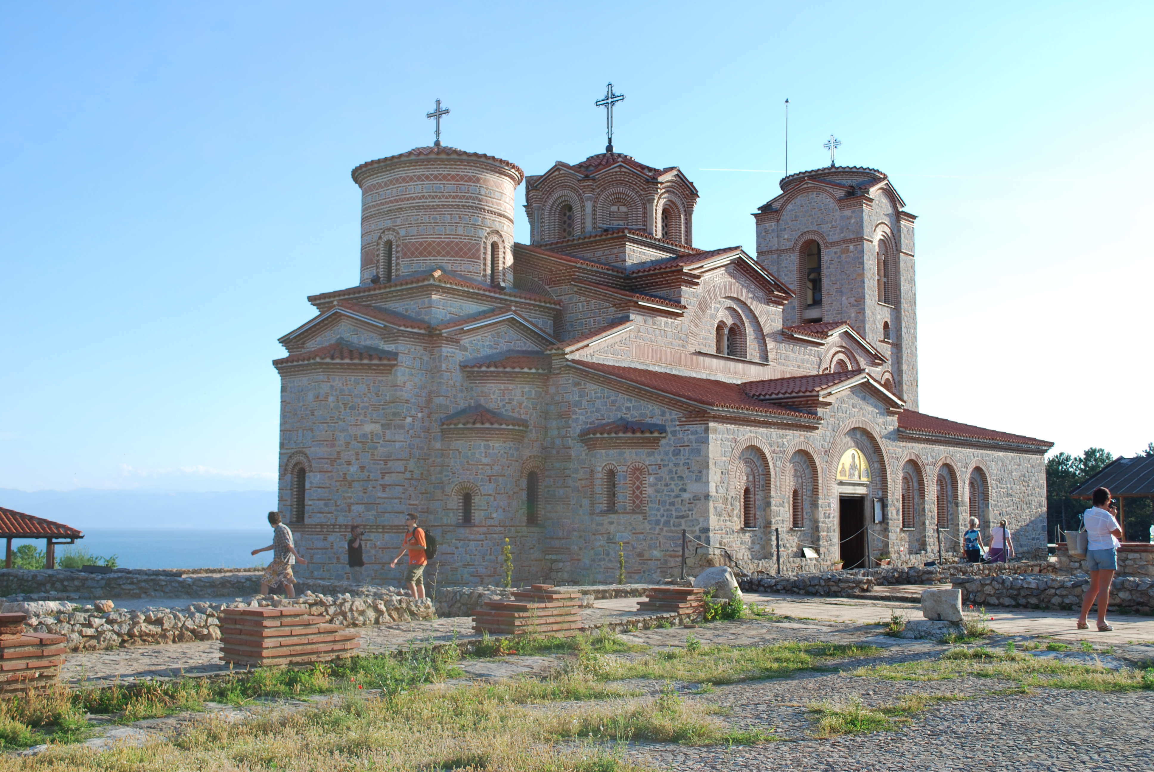 The Church of St. Kliment & St. Pantelejmon at Plaošnik in Ohrid, Macedonia